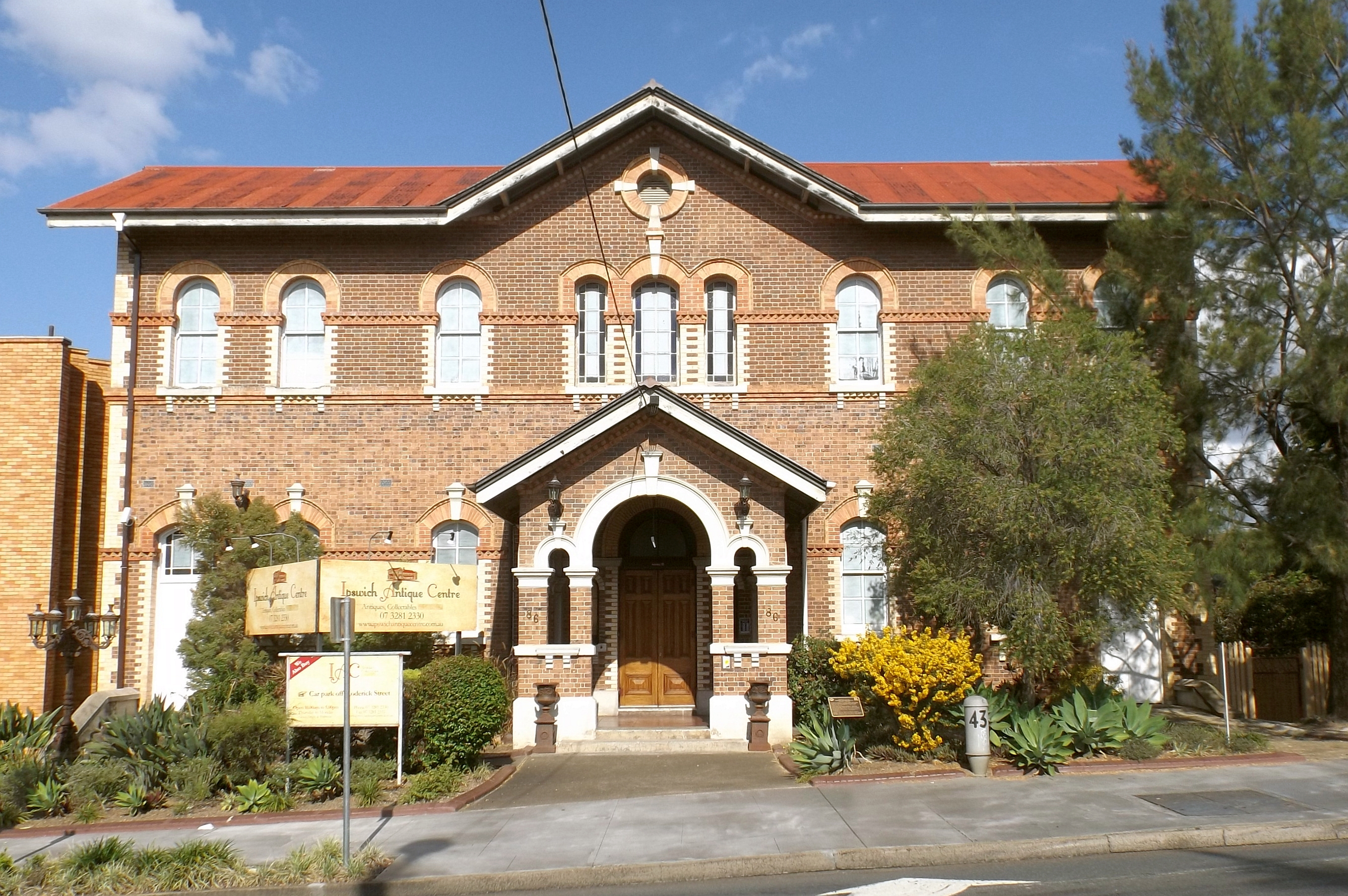 Photo of Uniting Church Central Memorial Hall in Ipswich, Queensland, Australia.